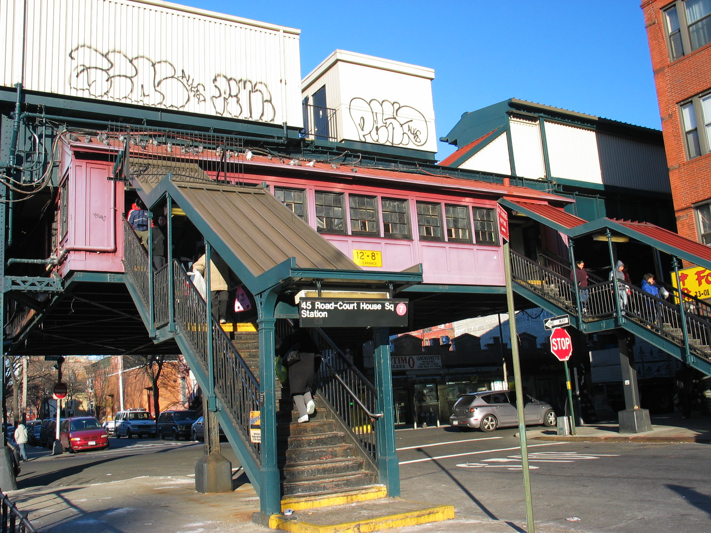 Flushing line elevated station 45 Road-Court House Square in Queens, New York. Image taken looking north-west.